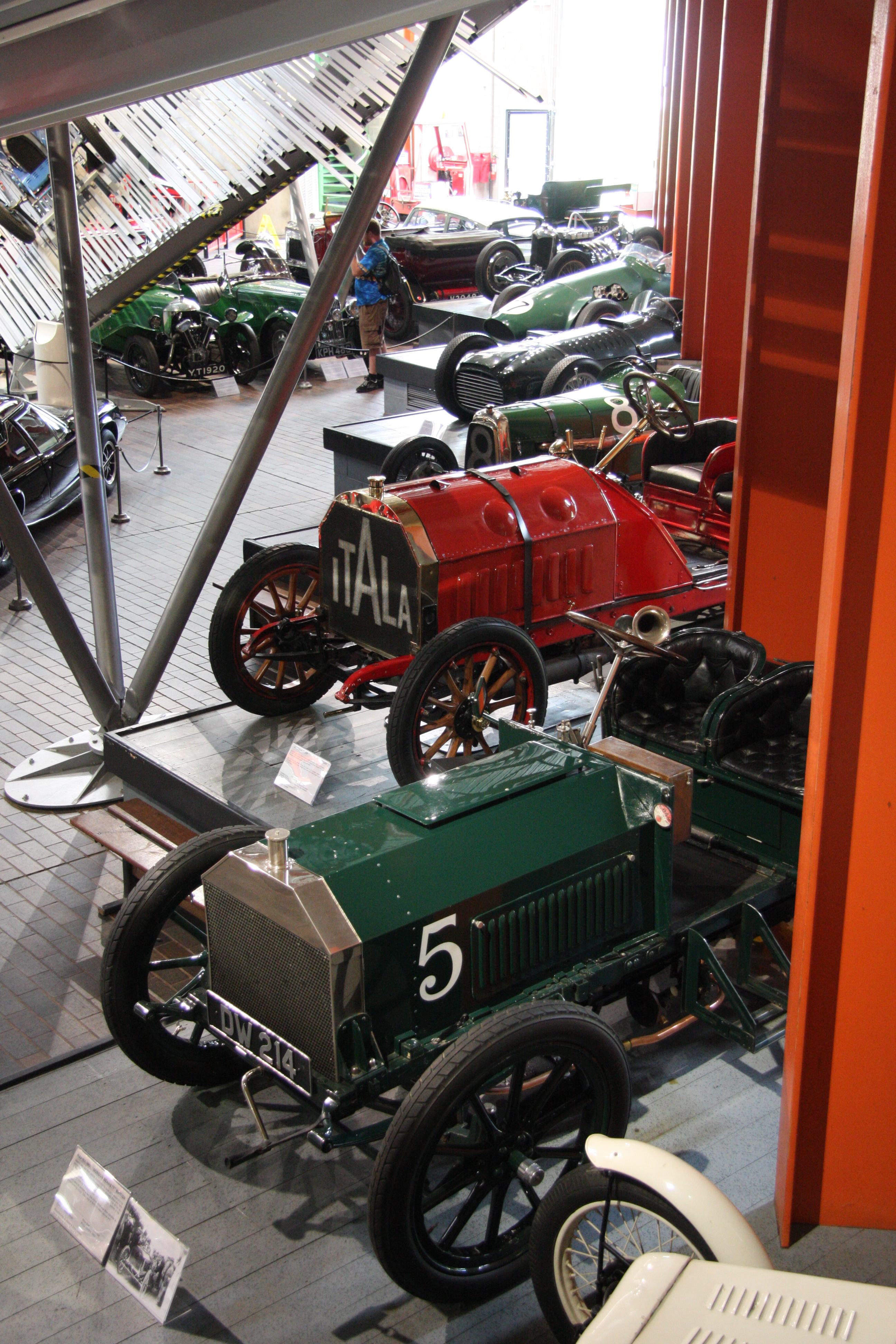 Early race cars